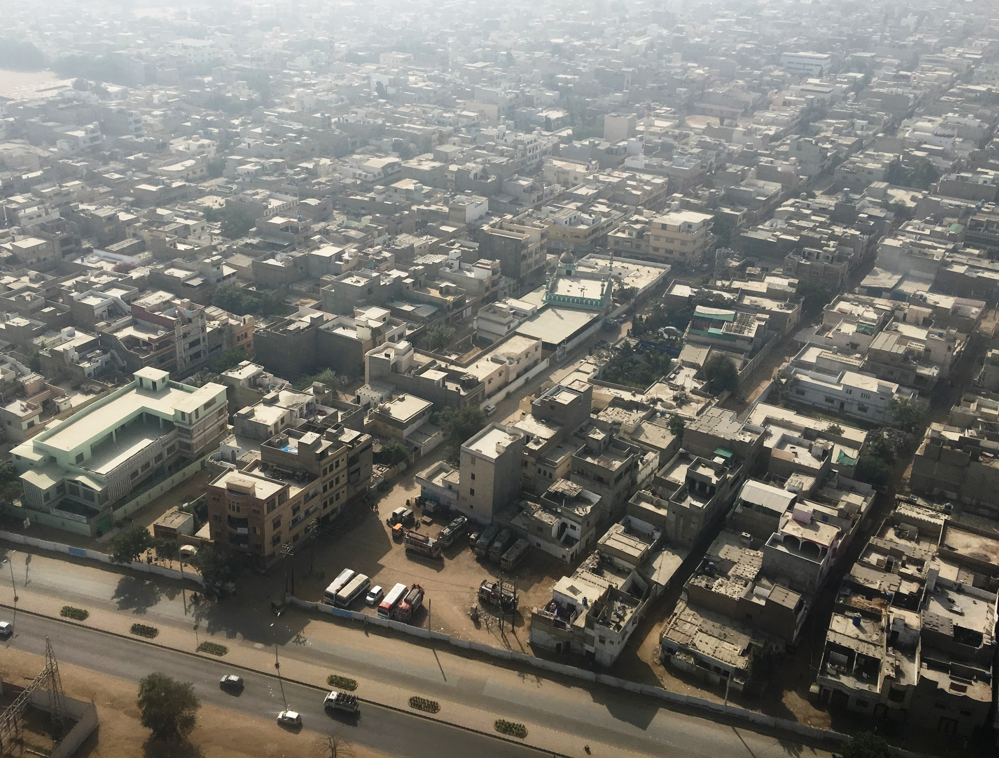 Image seen from the north towards south, of the northernmost areas of the Malir Town district ("thesihl") in eastern Karachi, Pakistan. The mosque in the center of the image is the Faiz e Muhammad Mosque.